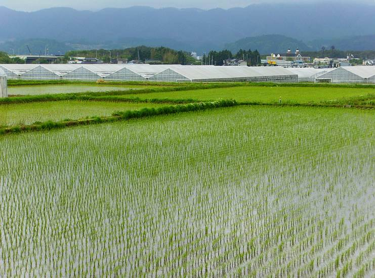 Yonesaki:Rikuzentakata-city,Iwate-prefecture,Japan